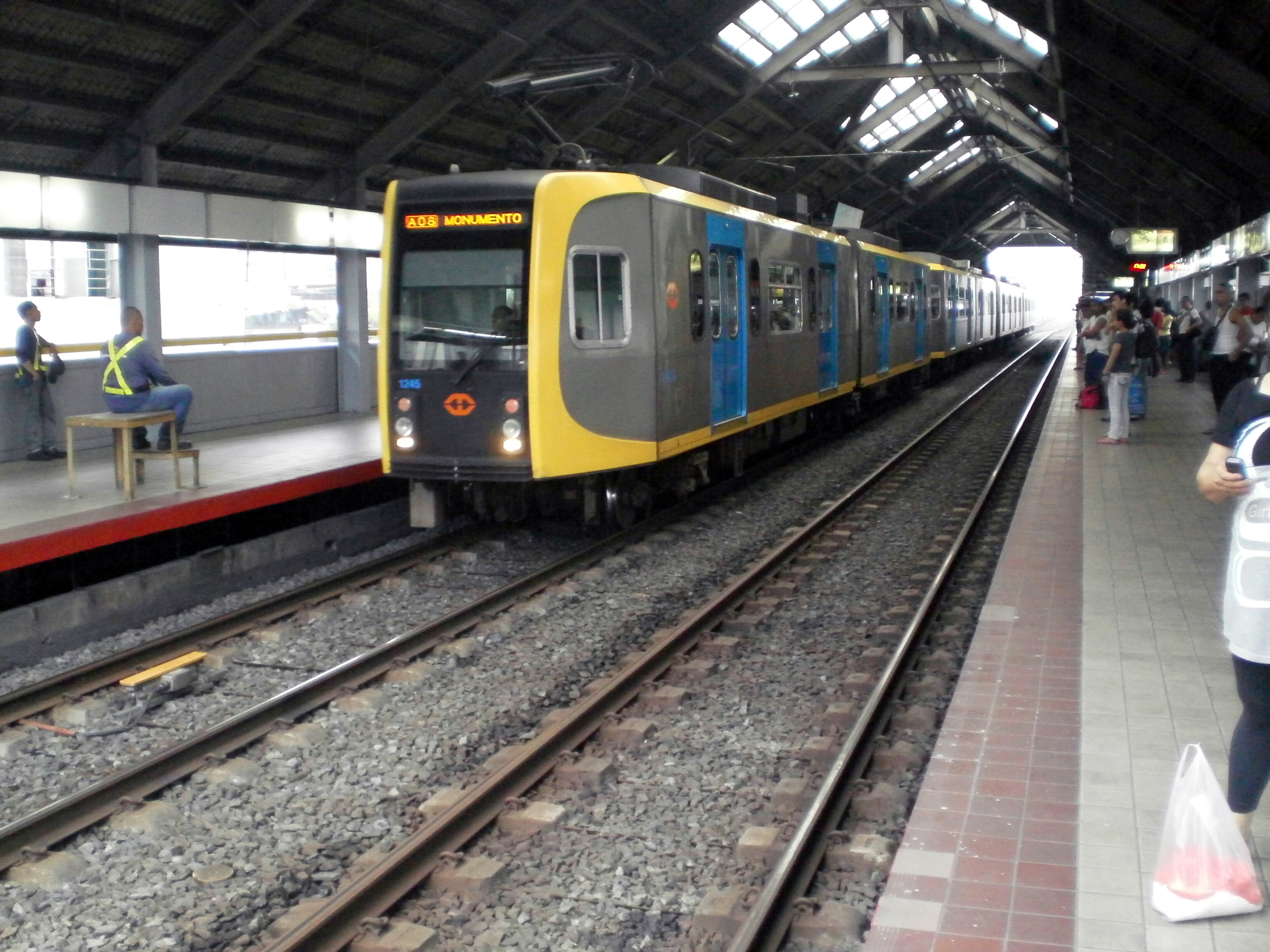 Platform area of Blumentritt LRT Station.